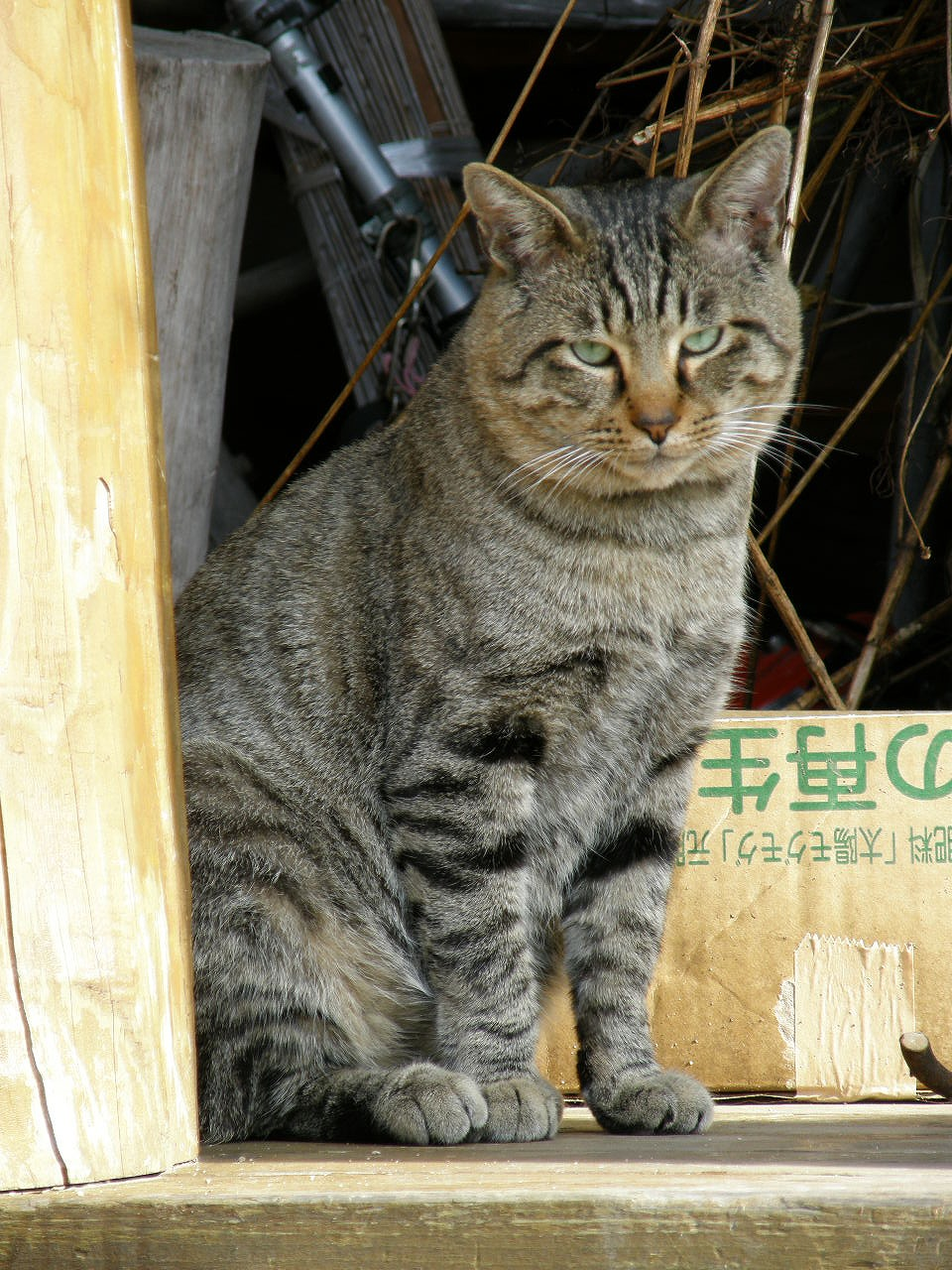 Homeless cat 野良猫